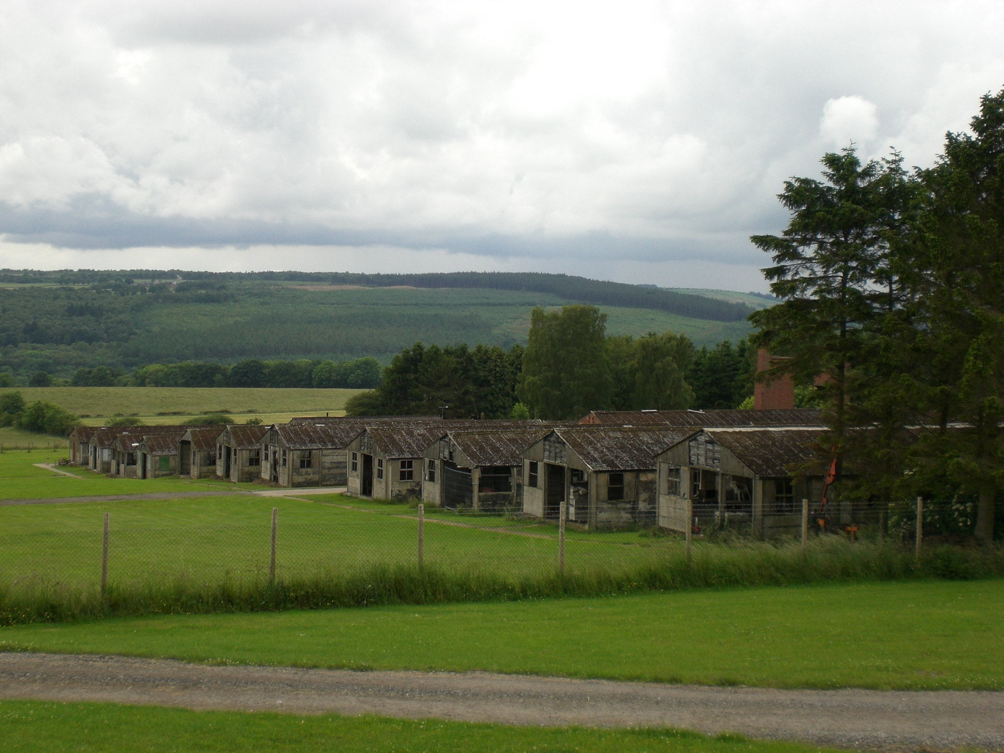 outside the SE corner